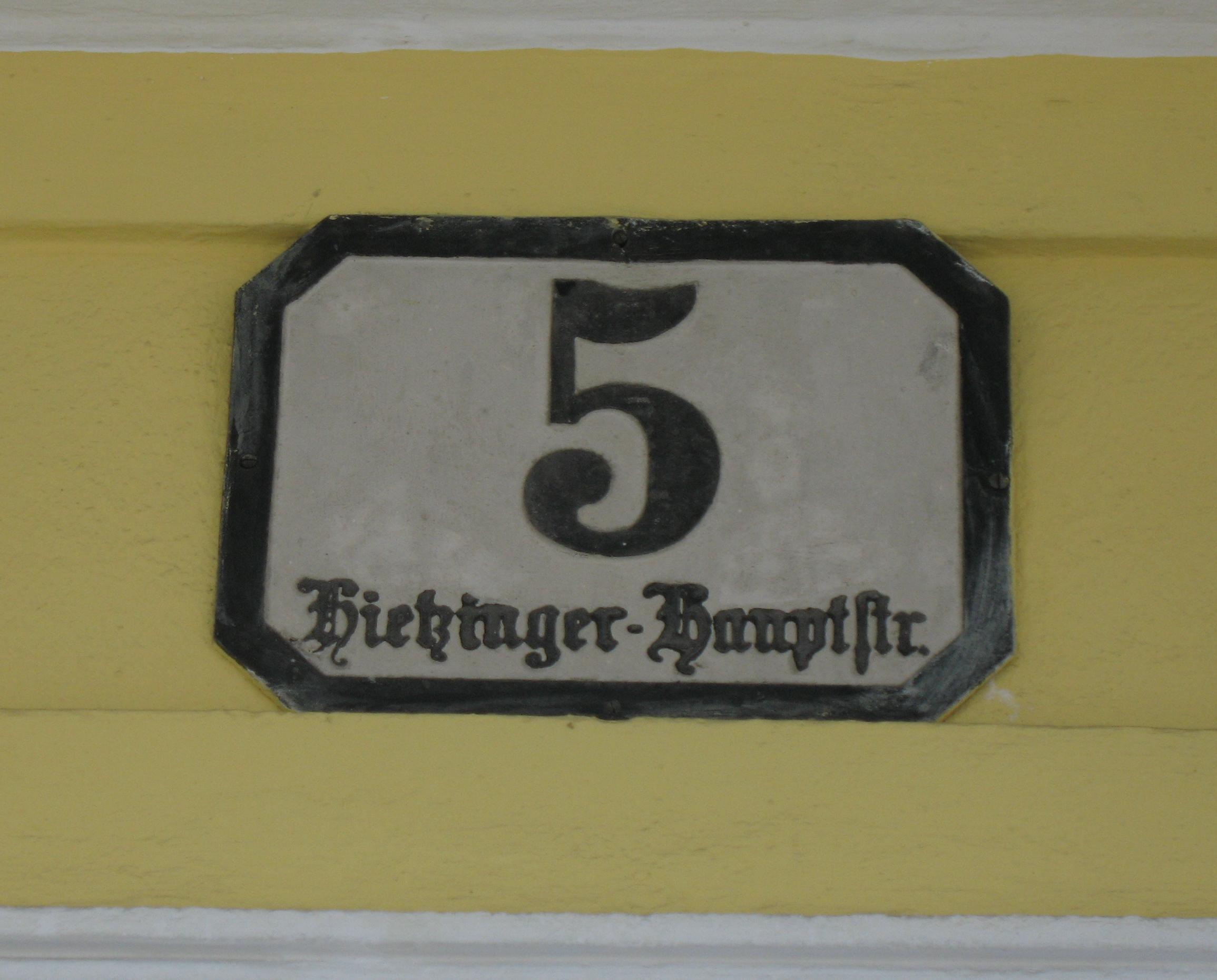 House number in Vienna, Austria